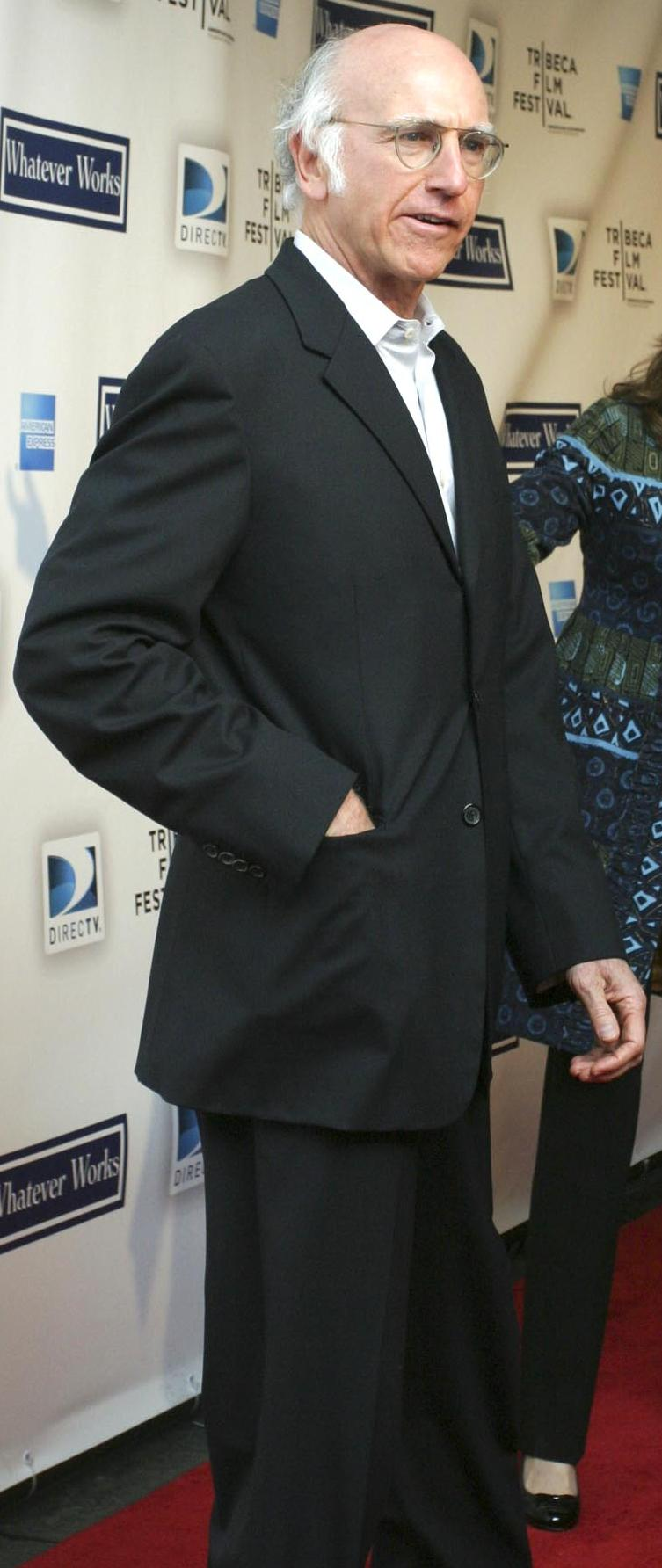 Larry David – Tribeca Film Festival "Whatever Works" Premiere.